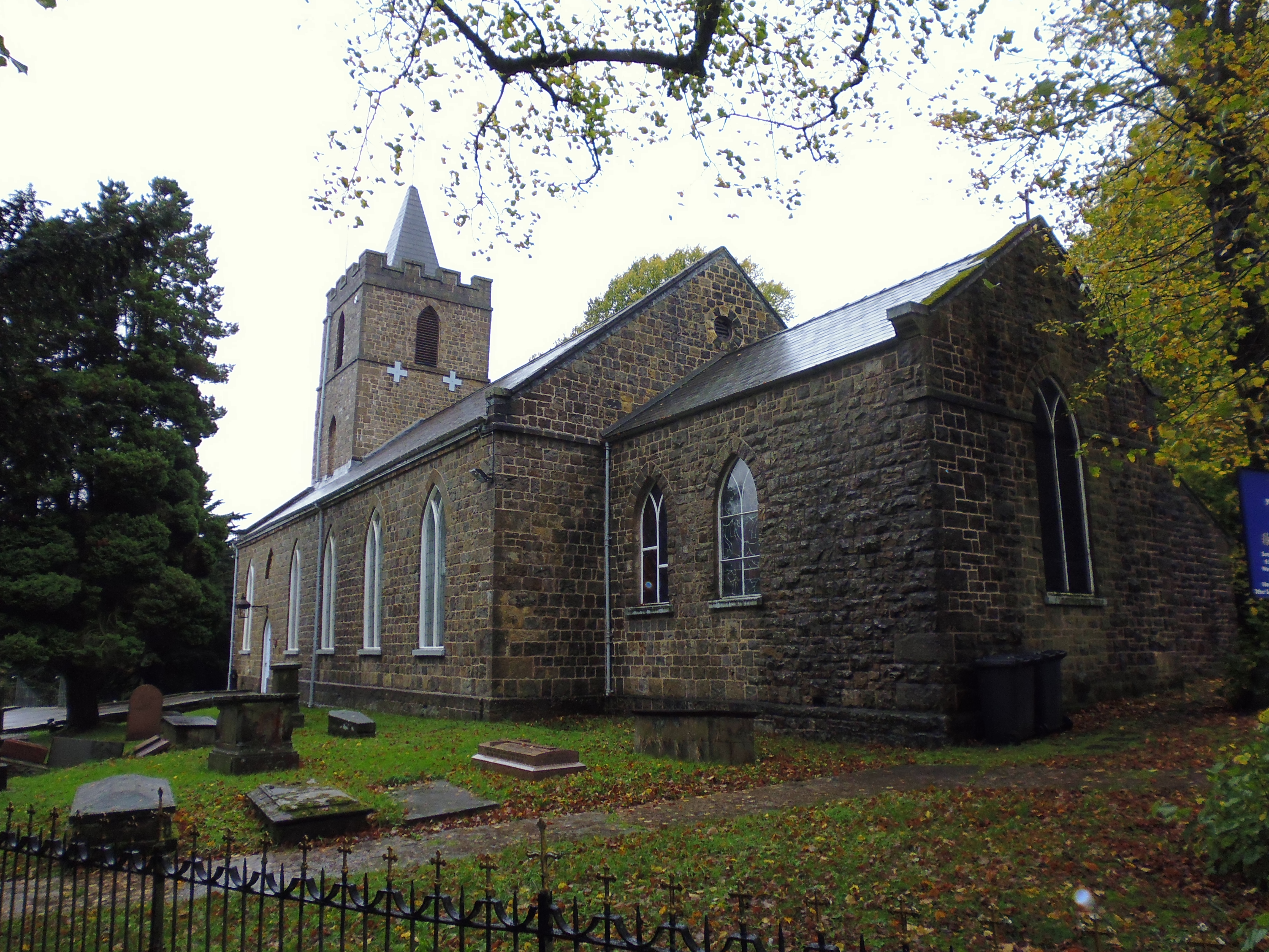 St Peter's Church (Church in Wales), Blaenavon. A Grade II* listed building. HB No 15273.